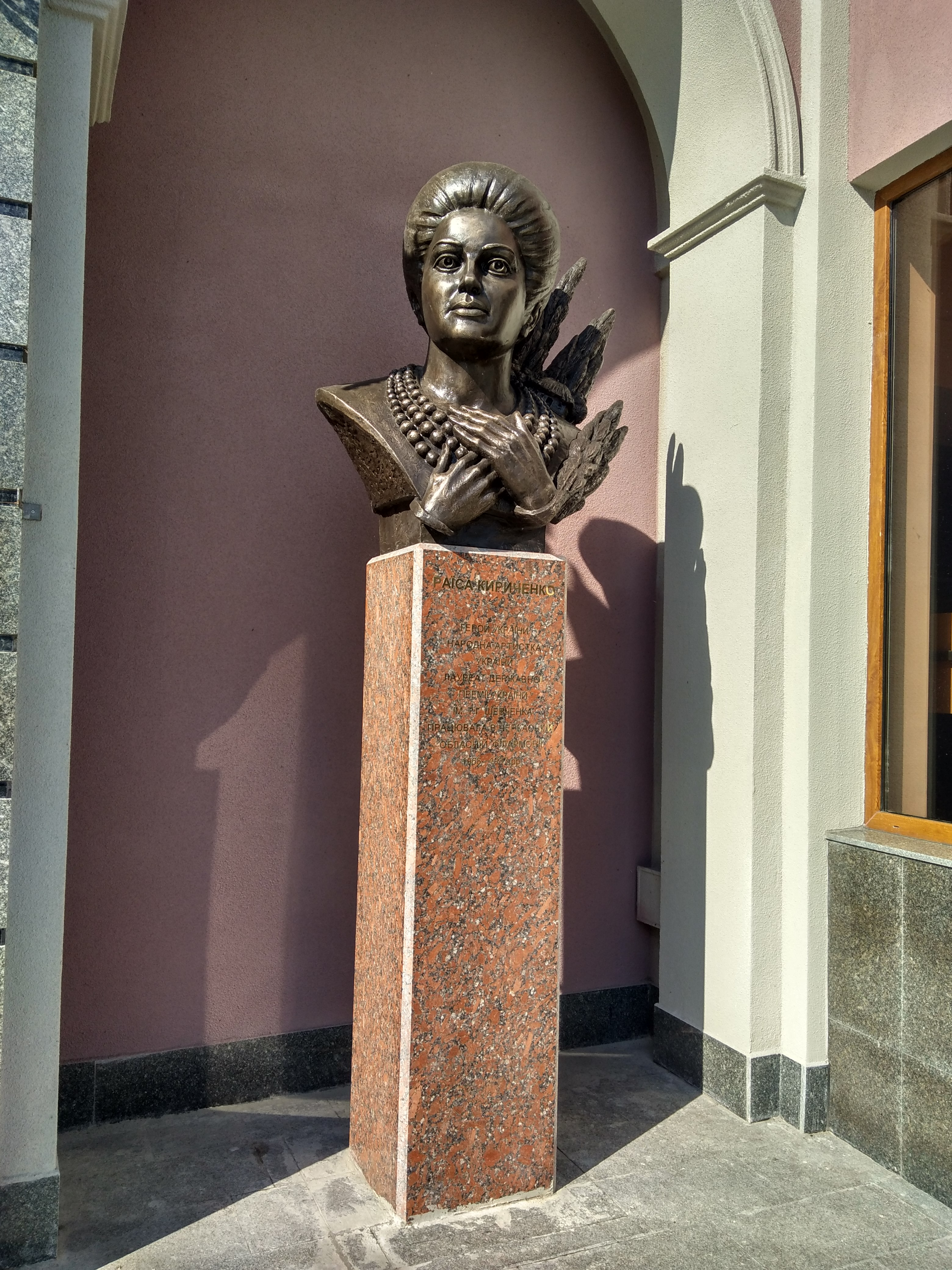 The monument to Ukrainian singer Raisa Kyrychenko. Cherkasy